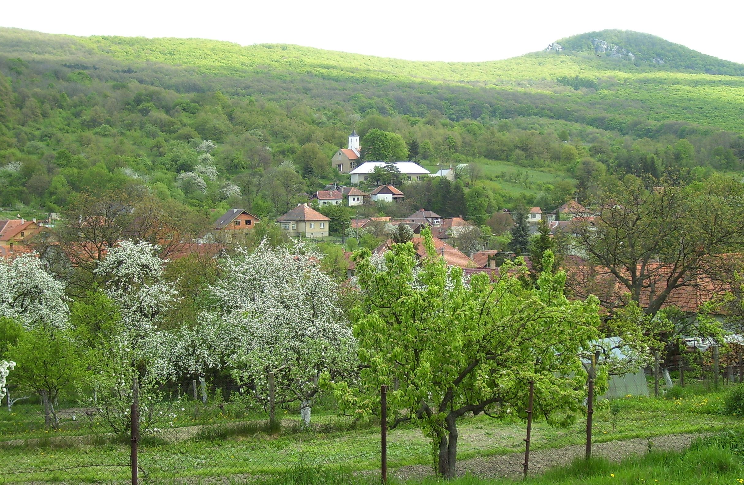 View of Kostoľany pod Tribecom (Hungarian: Gimeskosztolany) in Slovakia. The photo was taken on 2 May 2008. Own work.